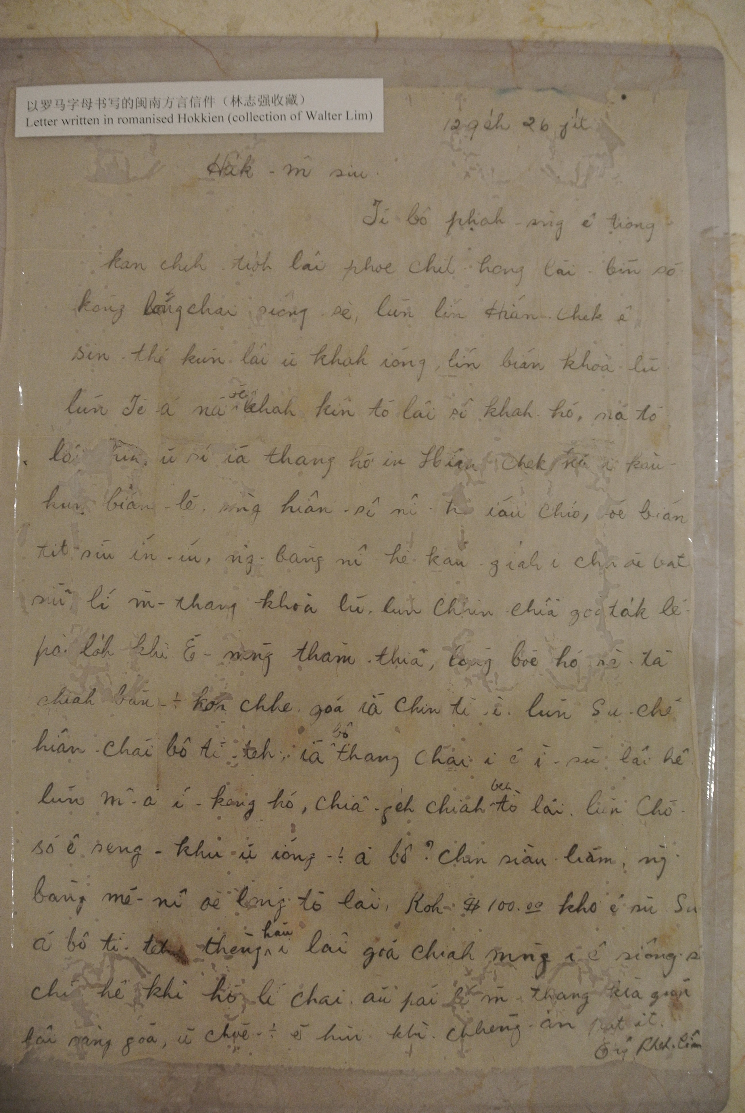 A letter written in POJ (romanized Hokkien) provided by descendant of Tan Boon Hak, 陈文学, a cousin of Tan Kah Kee, who donated it to the Brownies for the exhibition